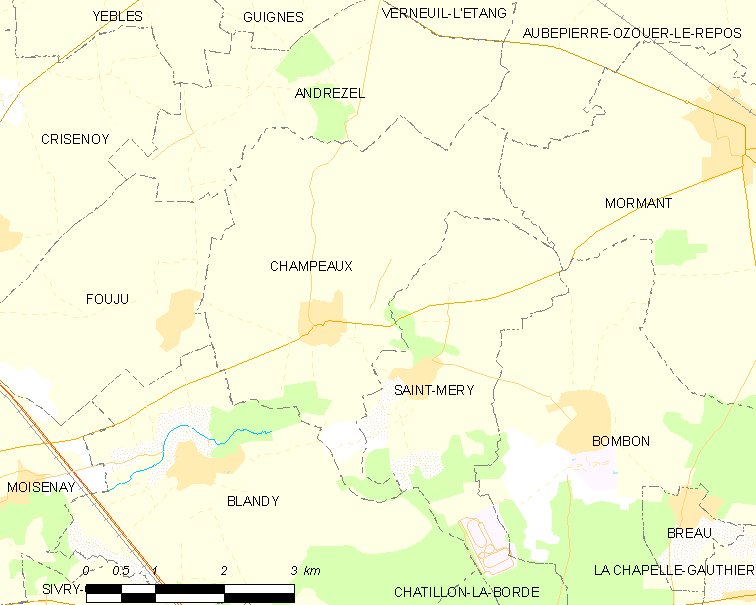 Map of French municipality Champeaux